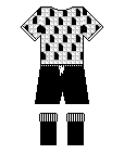 Bragantino's 1989-1991 home kit. Made by myself, Carioca.